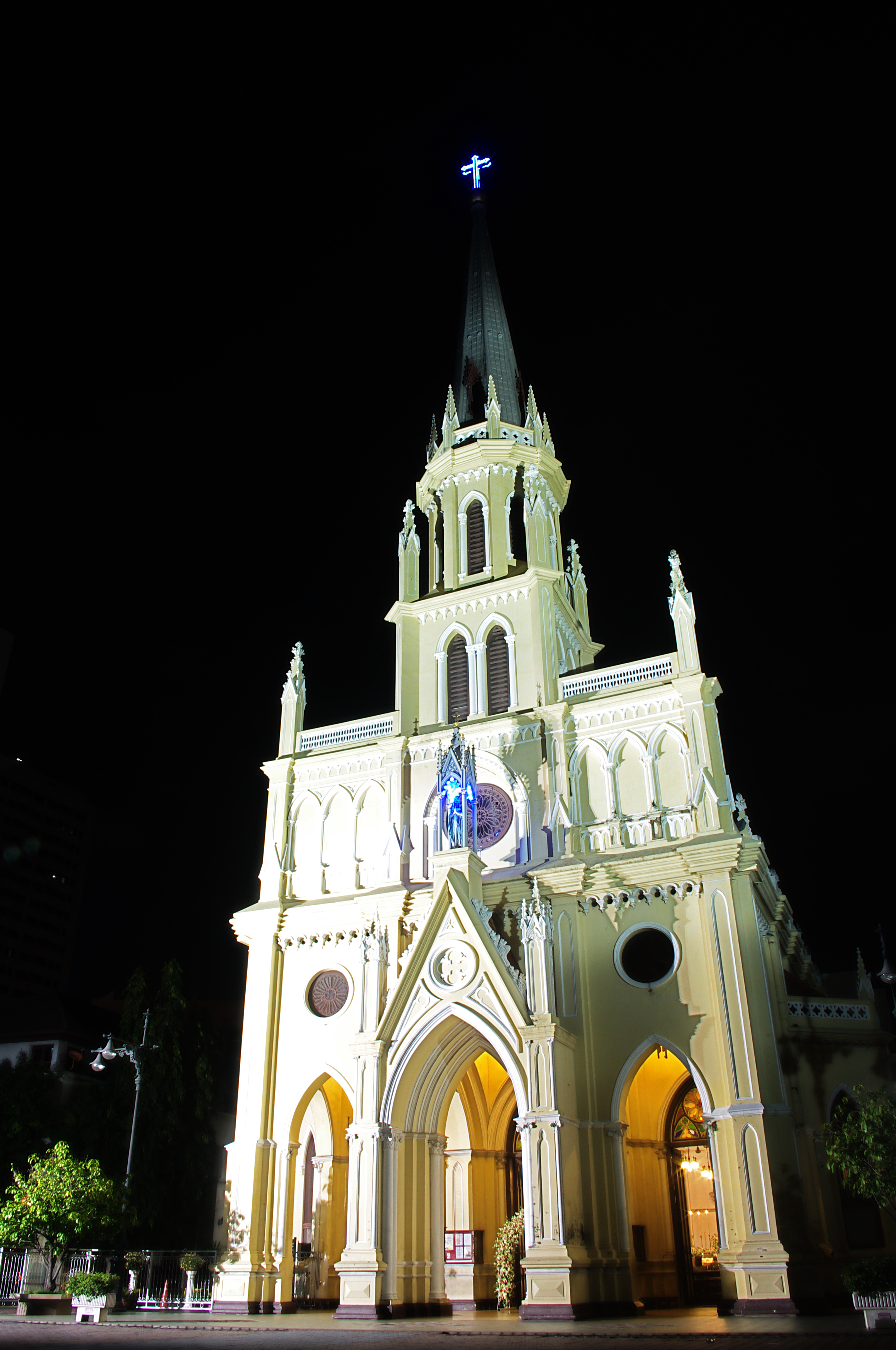 Holy Rosary Church, commonly known in Thai as Wat Mae Phra Luk Pra Kham (วัดแม่พระลูกประคำ, "Rosary Temple"), Samphanthawong District, Bangkok.